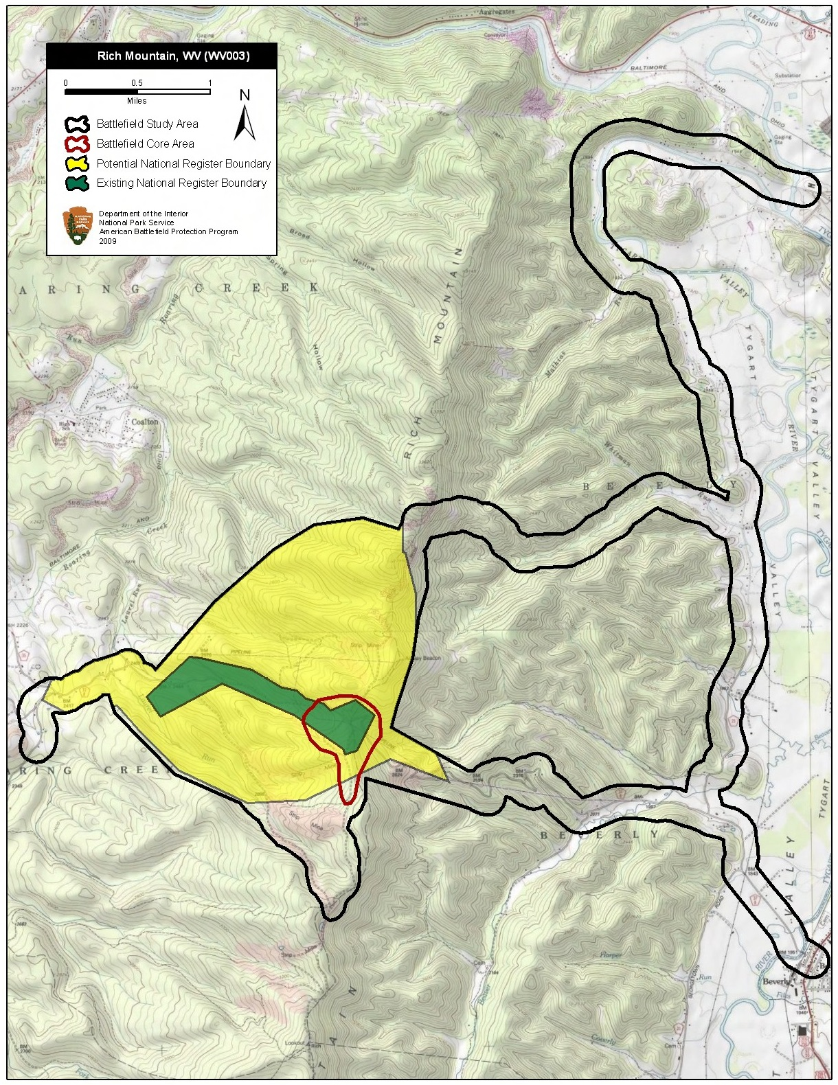 Map of battlefield core and study areas. The Study Area and Core Area were expanded to take in the area of Federal flank attack. The revised Study Area also includes the Confederate withdrawal route.